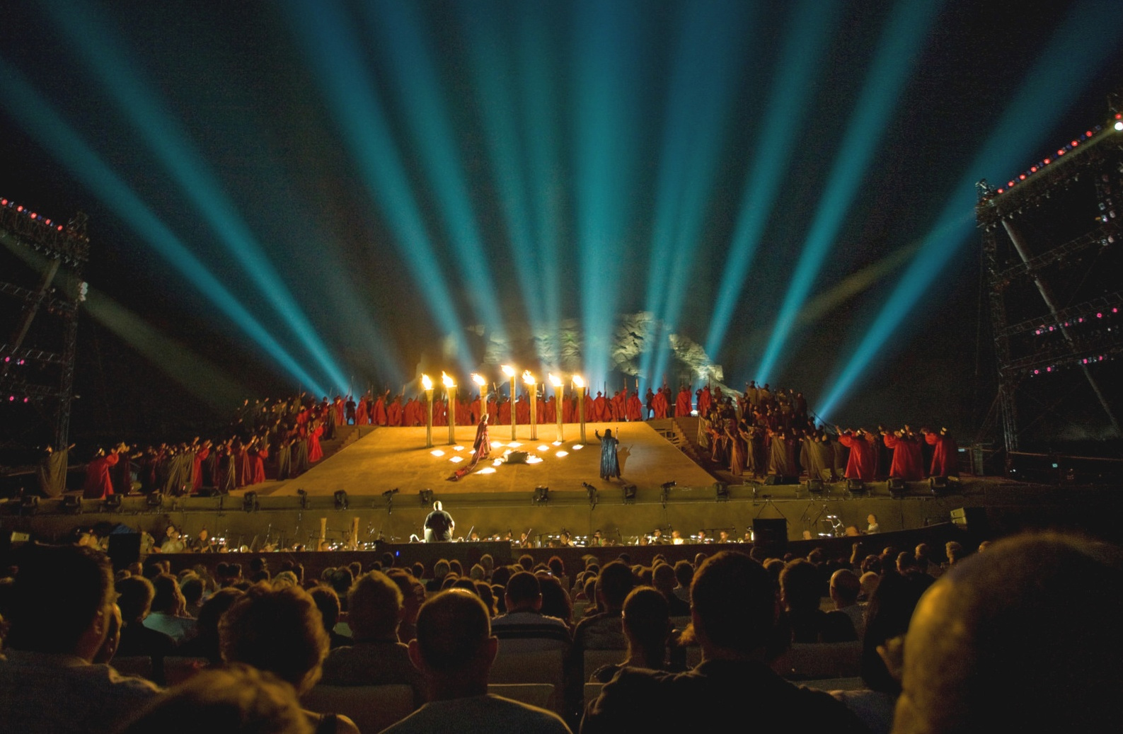 NABUCCO at MASADA - June 2010